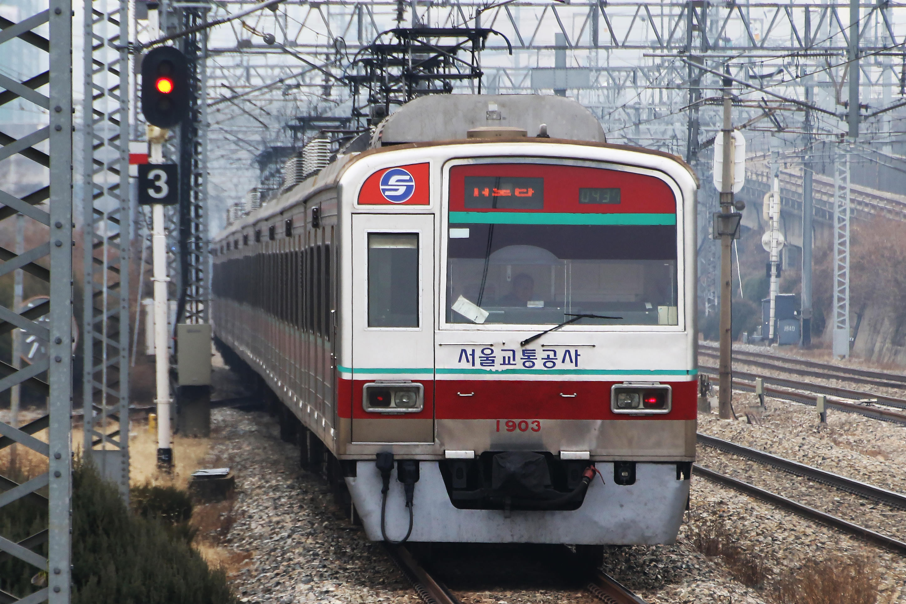 Seodongtan-bound Seoul Metro Line 1 train of Hyundai Precision Seoul Metro 1000-series 2nd generation cars (train 1-03) leaving Geumjeong.